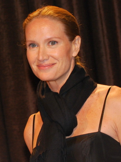 Kelly Lynch, Woodbury U. Gala & 44th Annual Fashion Show